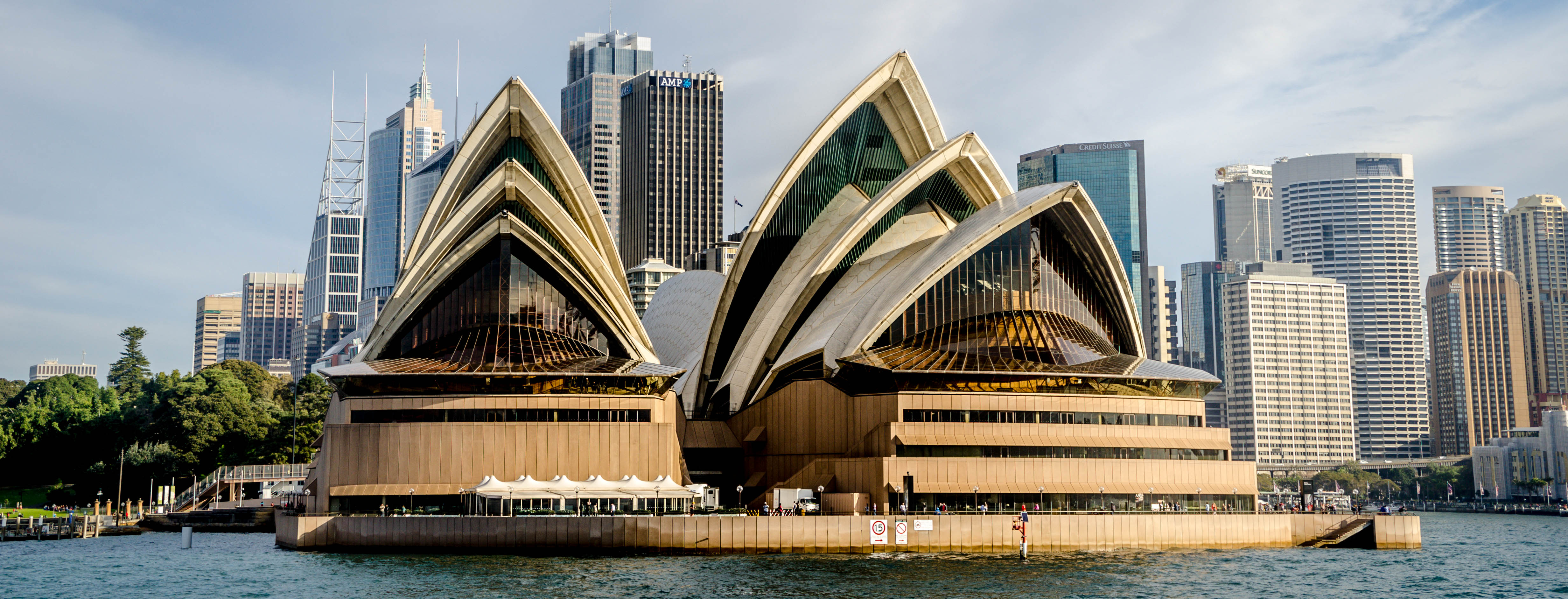 Sydney Opera House